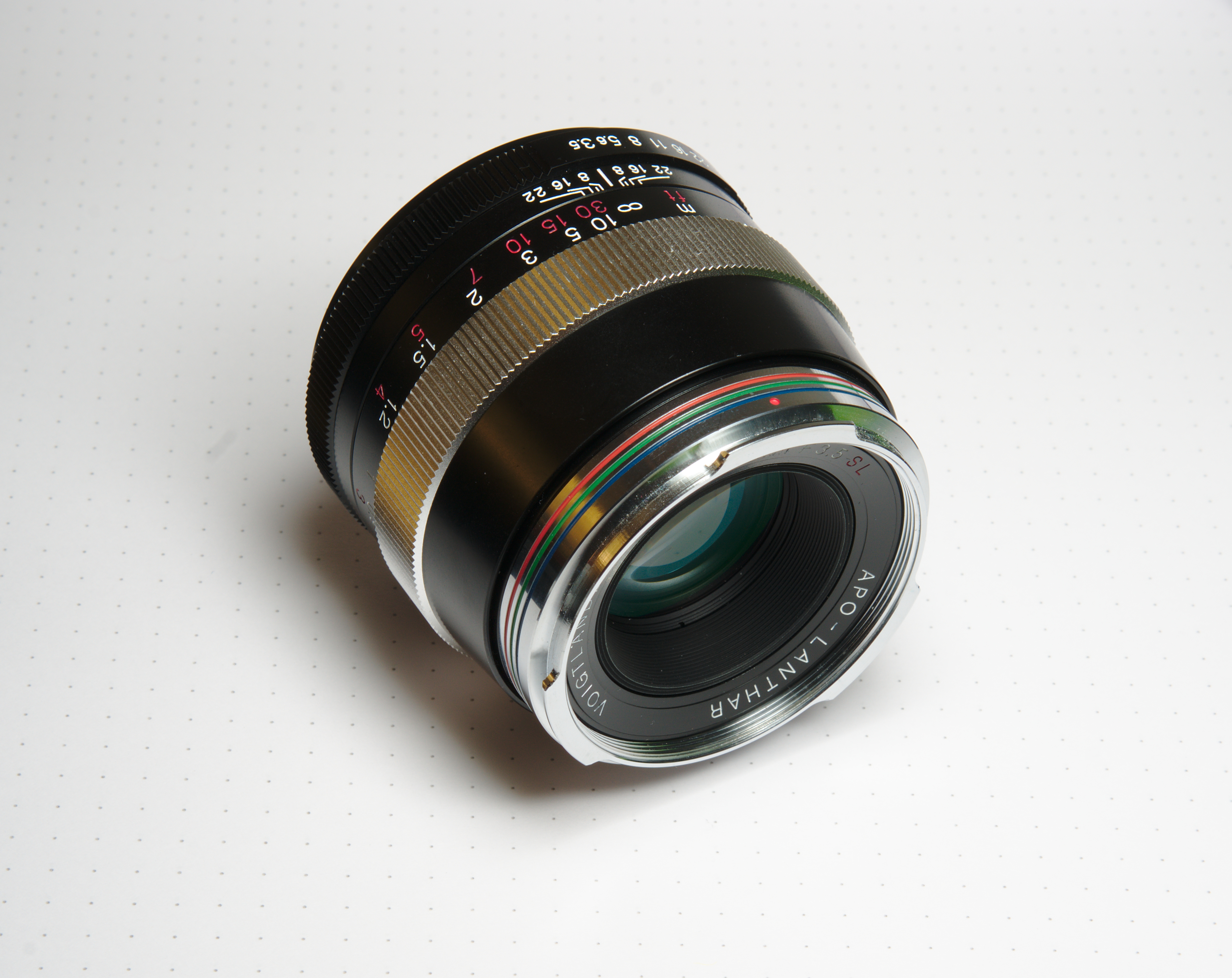 A Cosina Voigtländer APO Lanthar 90mm f/3.5 SL lens for M42-mount.